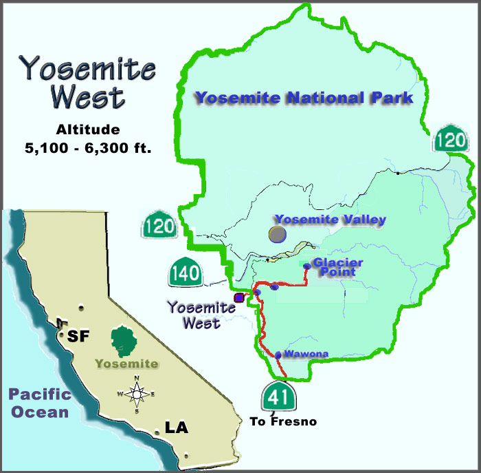 Location map of Yosemite West with access in Yosemite National Park